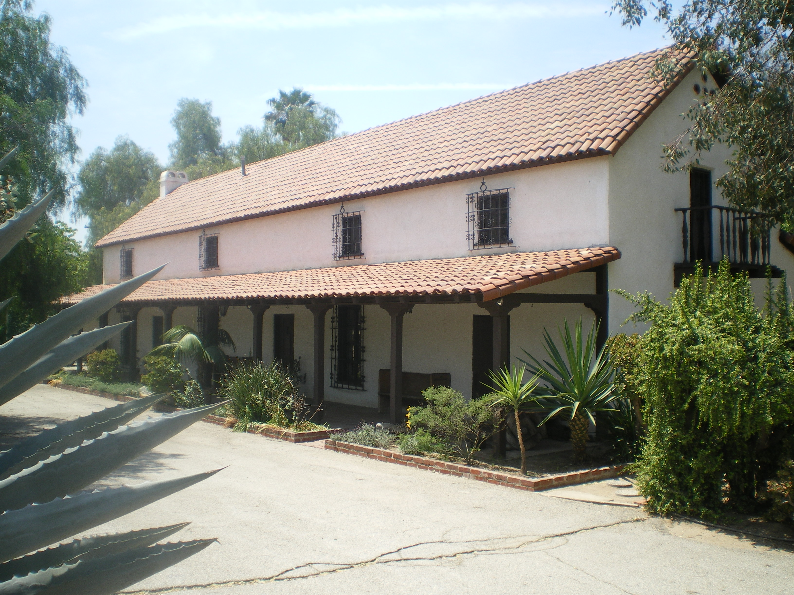 The Rómulo Pico Adobe — a historic house museum in Mission Hills, in the eastern San Fernando Valley. Home of the San Fernando Valley Historical Society archives, library, and museum. Built in 1834, the adobe is the oldest residence standing in the San Fernando Valley. A Los Angeles Historic-Cultural Monument (#7) located at 10940 Sepulveda Boulevard, Mission Hills, Los Angeles, California.